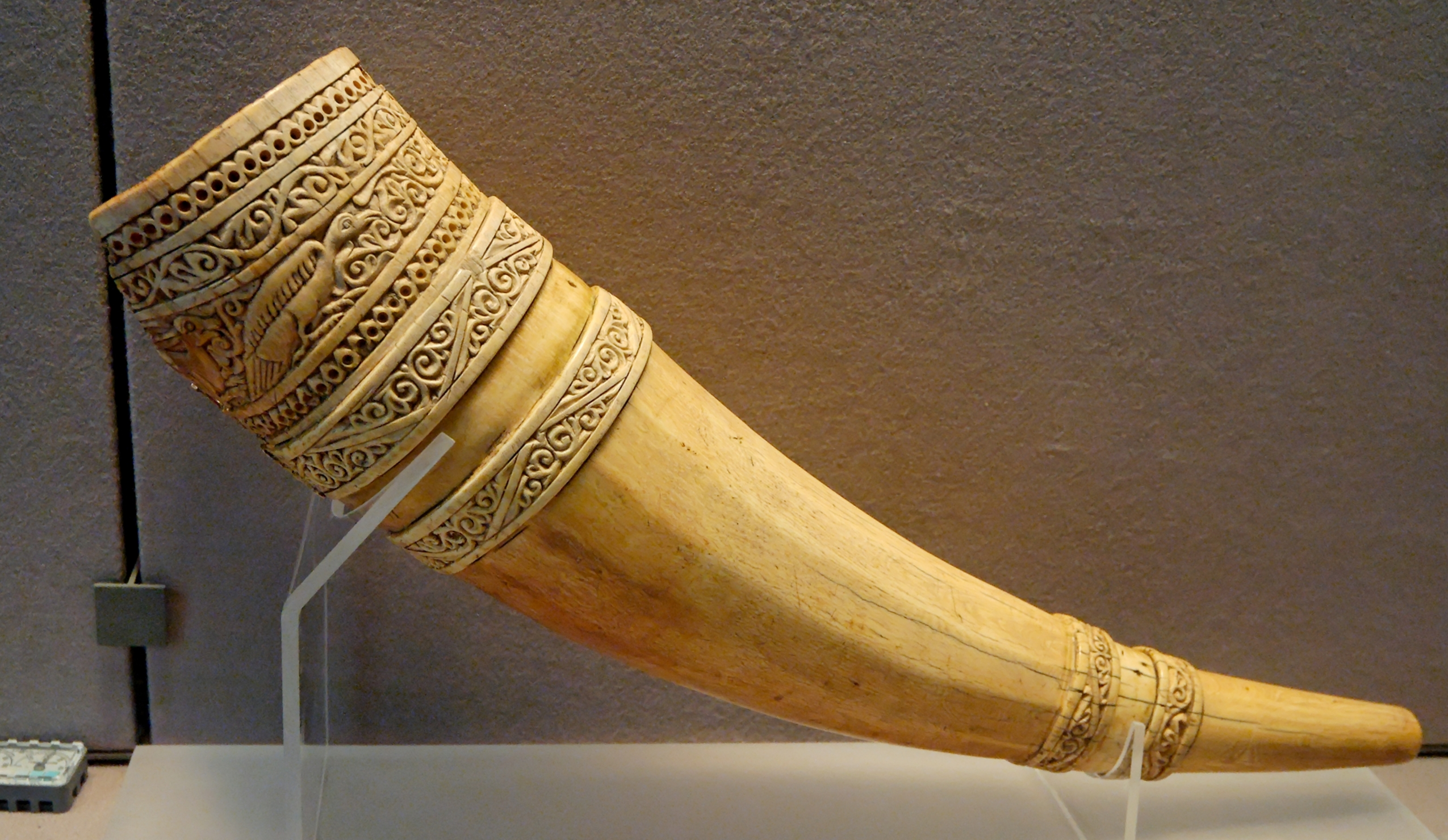 Olifant. Ivory, southern Italy, late 11th century.